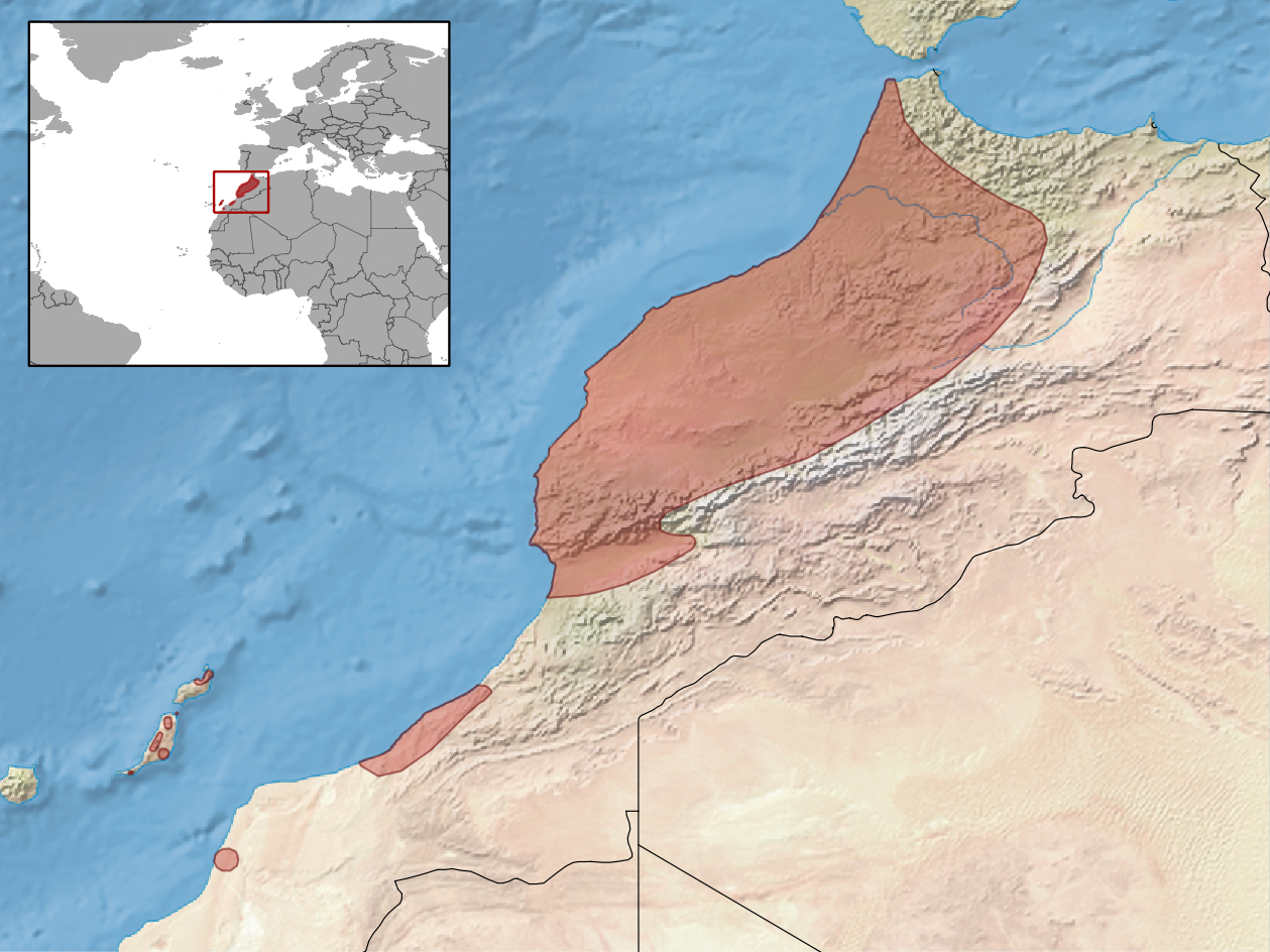 geographic distribution of Chalcides polylepis definition according to Reptile DB, including both Chalcides simonyi and Chalcides polylepis